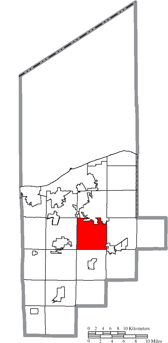 Map of the municipal and township boundaries of Lorain County, Ohio, United States, as of the 2000 census, with the location of Carlisle Township highlighted. Township borders are shown only in unincorporated areas in order to differentiate incorporated and unincorporated areas more clearly.